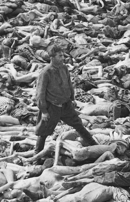 Dr Fritz Klein, the camp doctor, standing in a mass grave at Belsen. Klein, who was born in Austro- Hungary, was an early member of the Nazi Party and joined the SS in 1943. He worked in Auschwitz-Birkenau for a year from December 1943 where he assisted in the selection of prisoners to be sent to the gas chambers. After a brief period at Neungamme, Klein moved to Belsen in January 1945. Klein was subsequently convicted of two counts of war crimes and executed in December 1945.